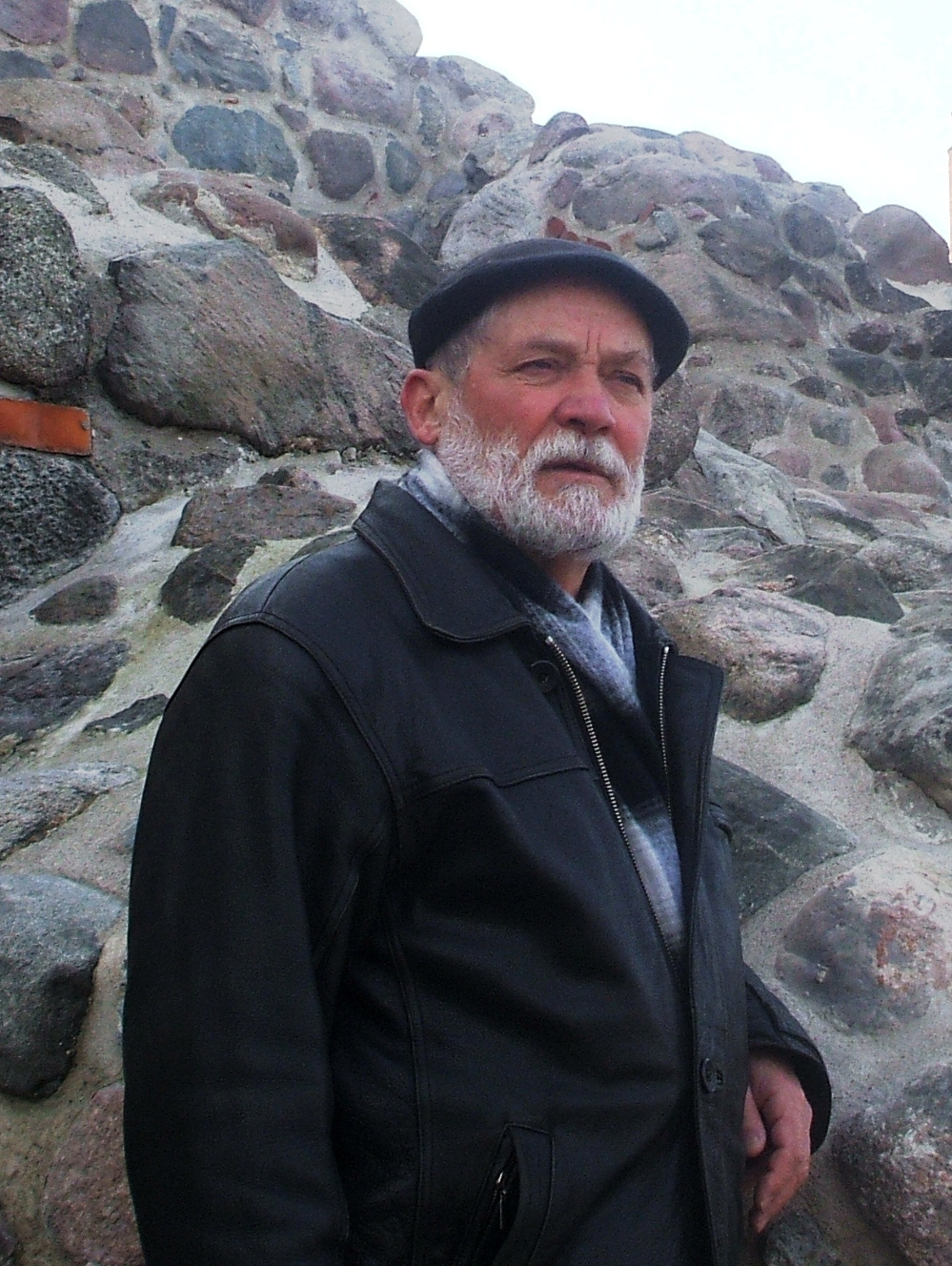 Vadzim Bolbas, writer and translator of literary works, member of the Union of Belarusian Writers.